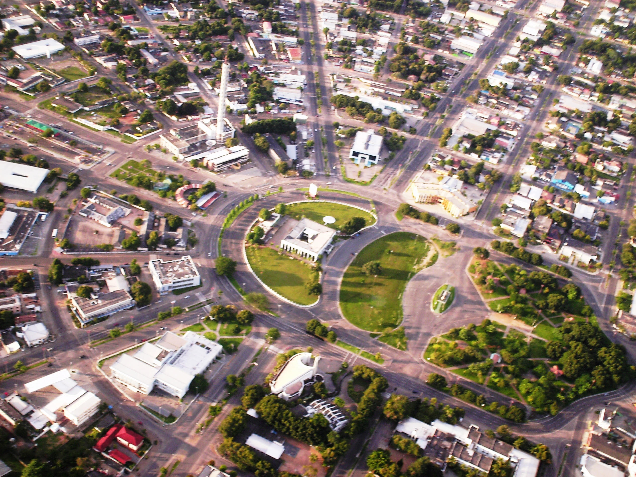 Boa Vista city, Roraima, Brazil.